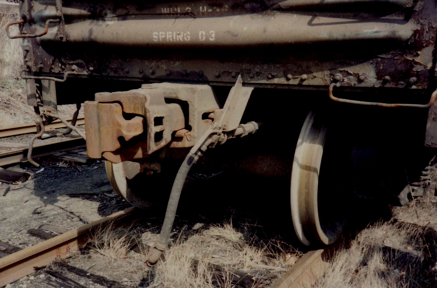 Modern boxcar end showing coupler, air brake hose and grab bars, all mandated by the Safety Appliance Act --agr 13:25, 10 Sep 2004 (UTC)